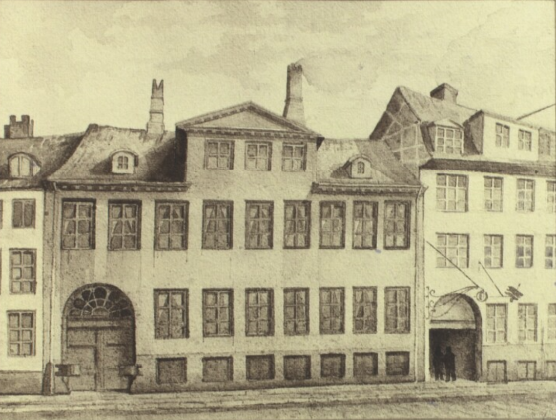 Ida Møller's childhood home at Ny Toldbodgade (now part of Toldbodgade) in Copenhagen, Fenmark